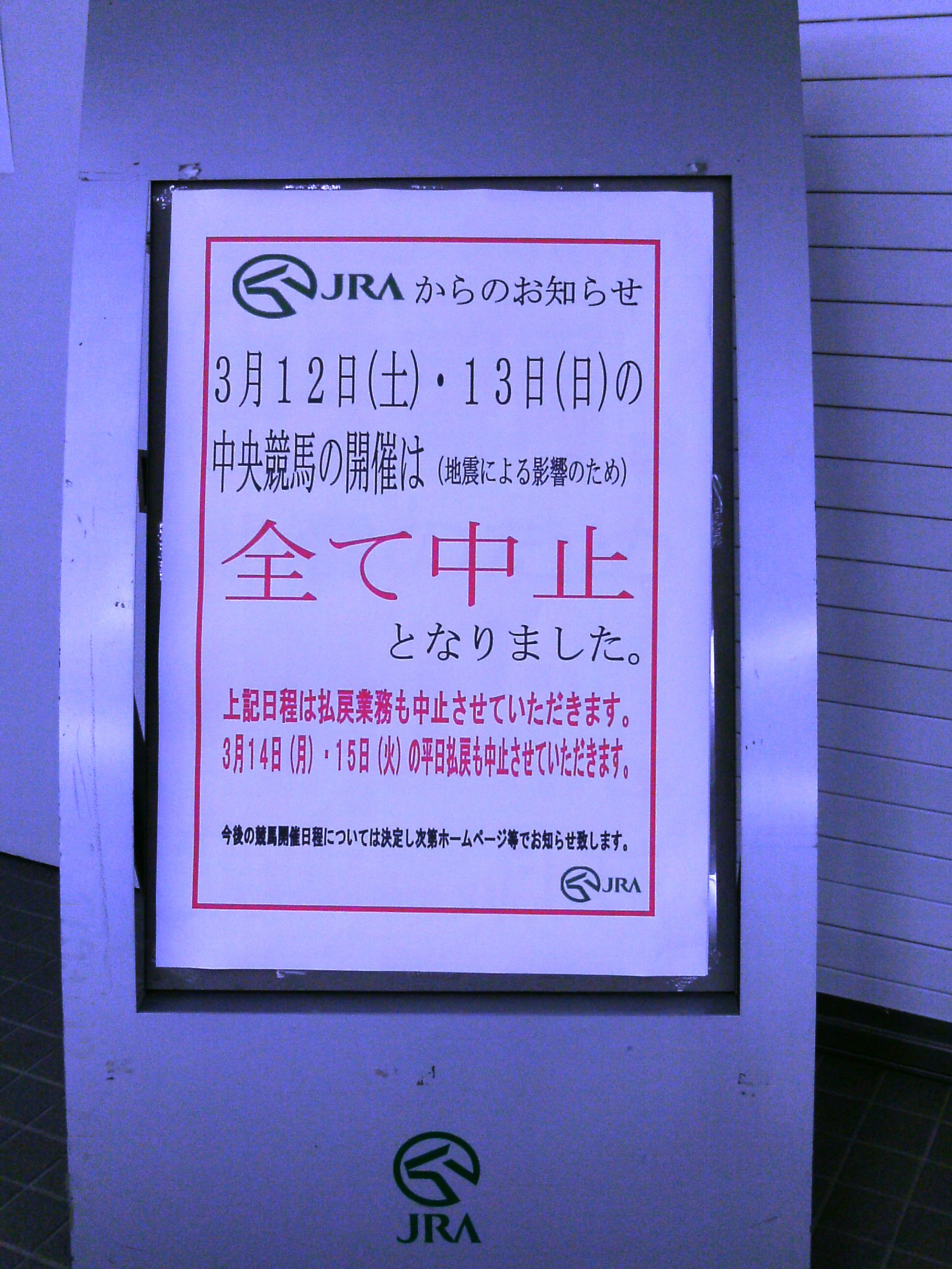 Touhoku-Tsunami Shock 2011 at JRA WINS Umeda Osaka